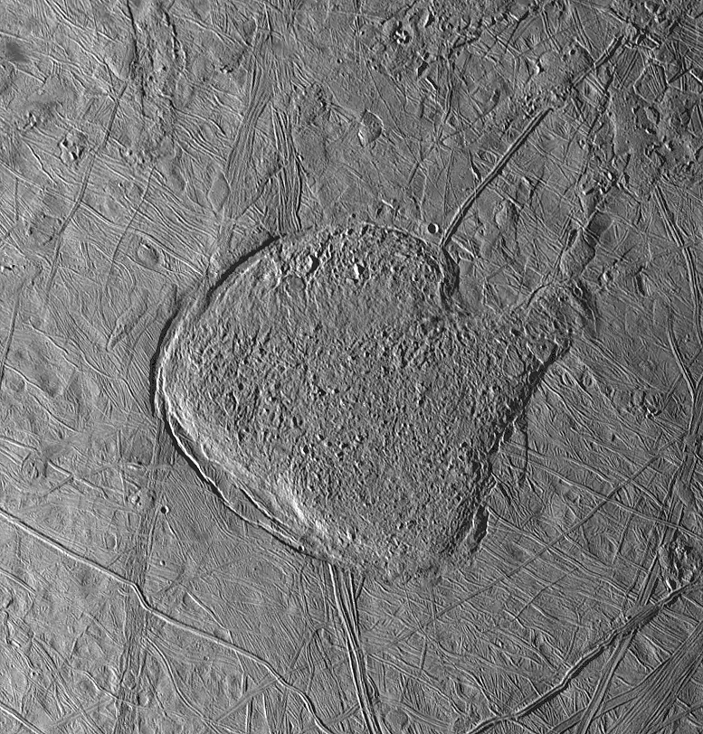 NASA/JPL-Caltech/Kevin M. Gill